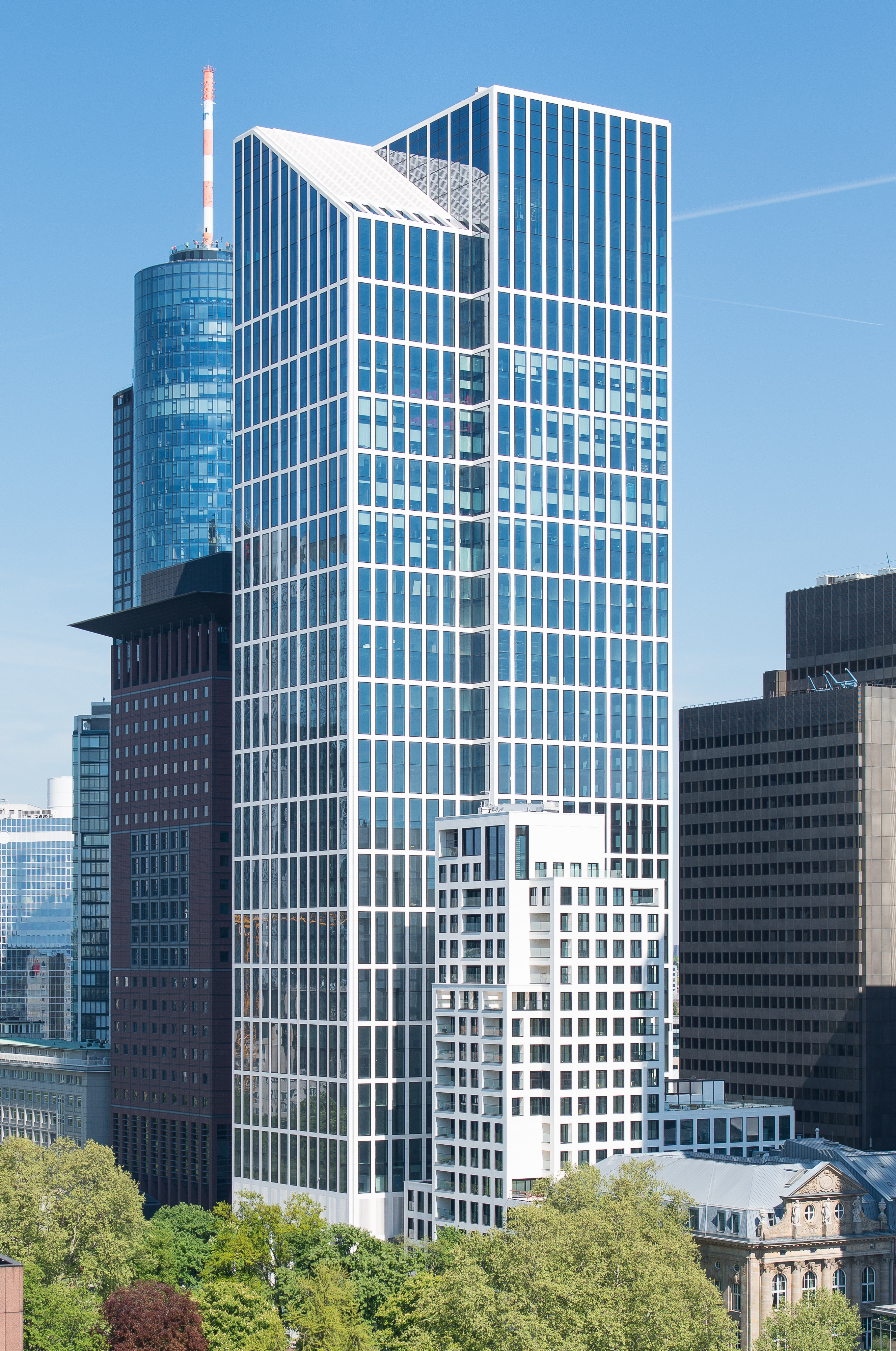 Frankfurt am Main, Taunusturm office tower with residence tower next to it, as seen from South (April 2014).